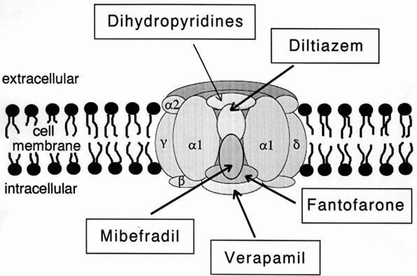 L-type calcium channel, a cellular channel that enables calcium ions to diffuse across the membrane